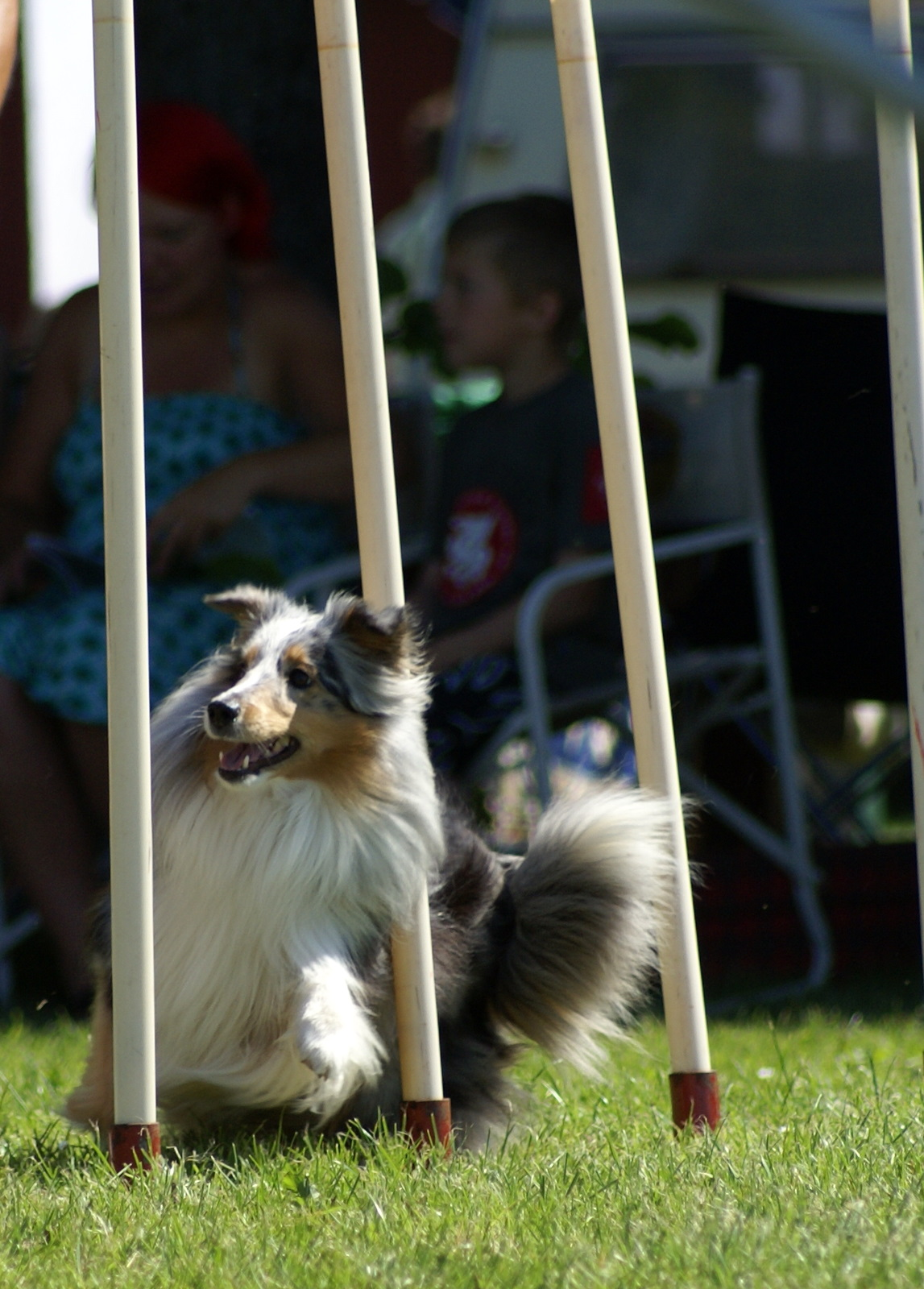 A Shetland Sheepdog doing weave poles during an agility competition.